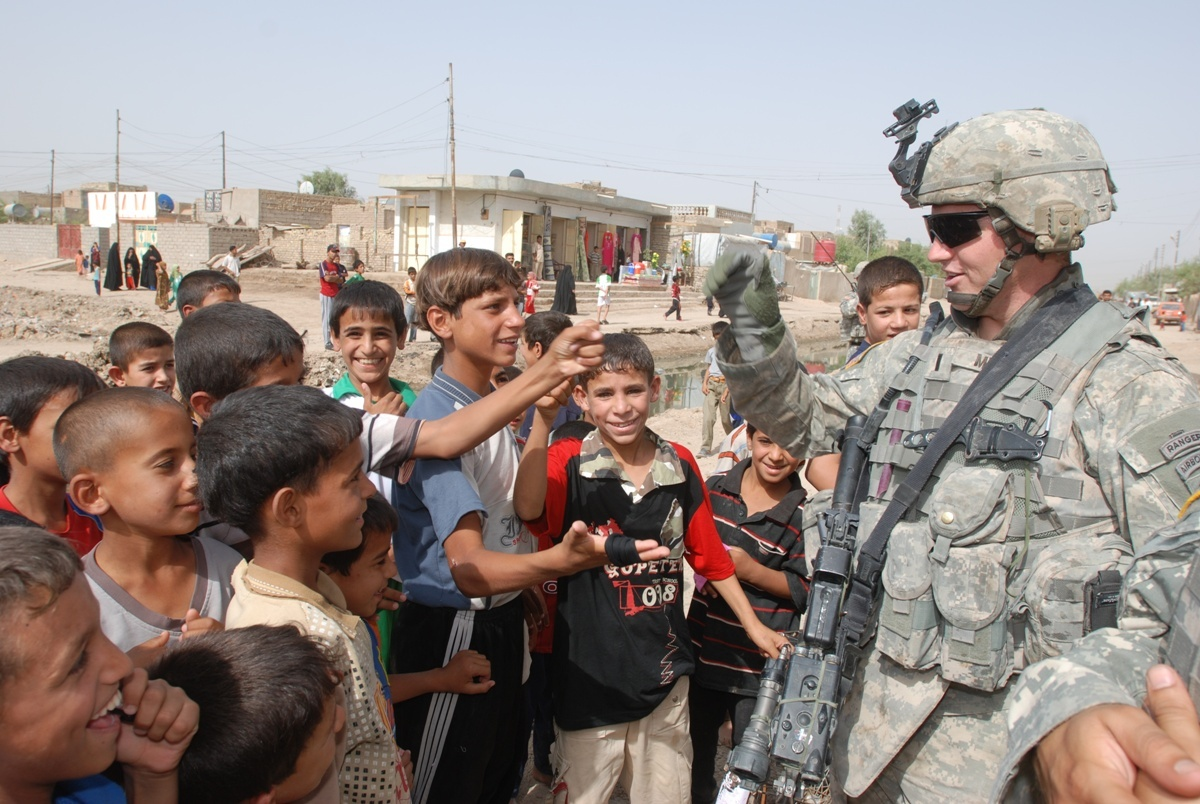 Children from Amarah interact with a Soldier from 1st Brigade Combat Team, 82nd Airborne Division, June 28. Children are back out in the streets as clearing operations slowed down allowing the Iraqi army soldiers to focus on the people of Amarah and their needs.